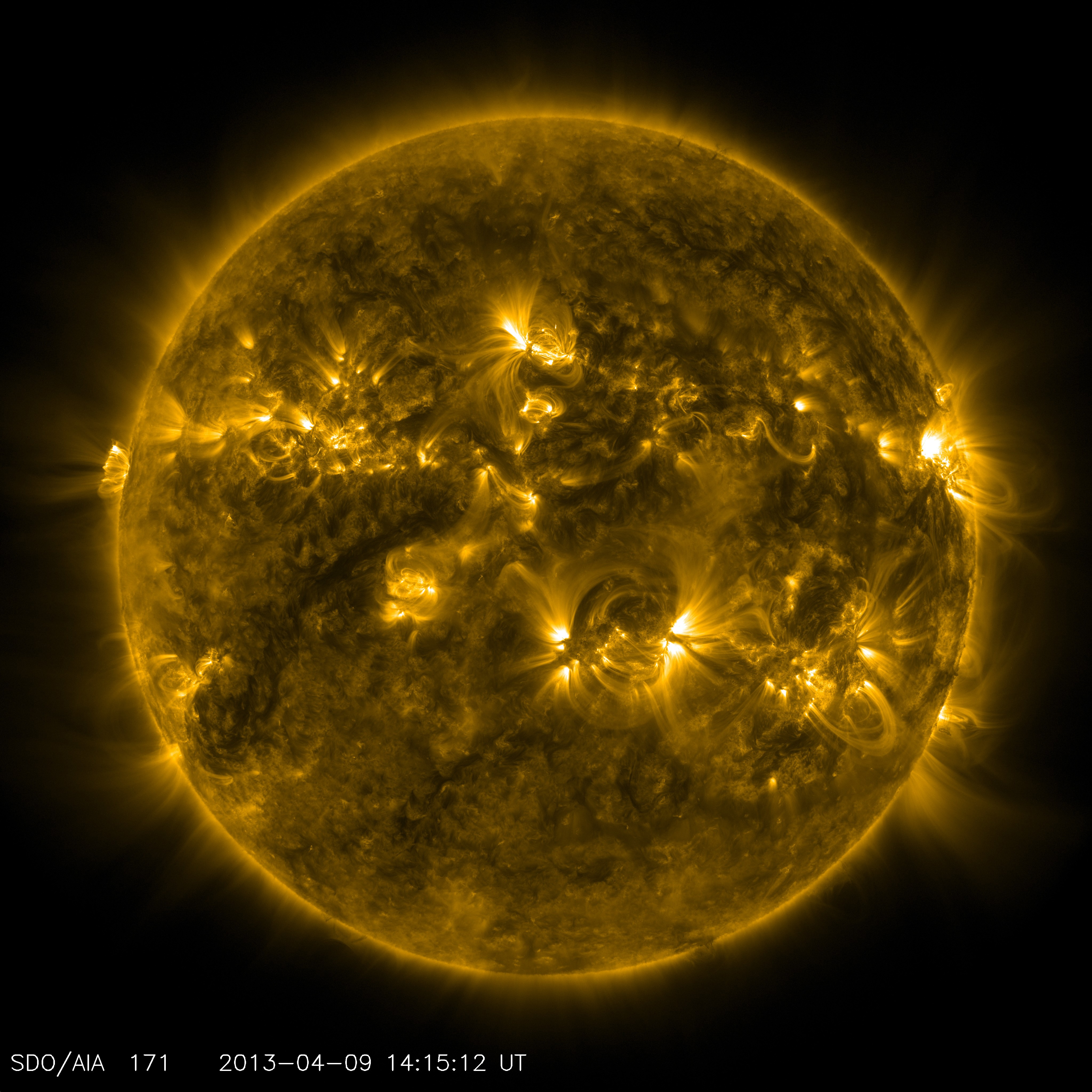 The sun is an MHD system that is not well understood.